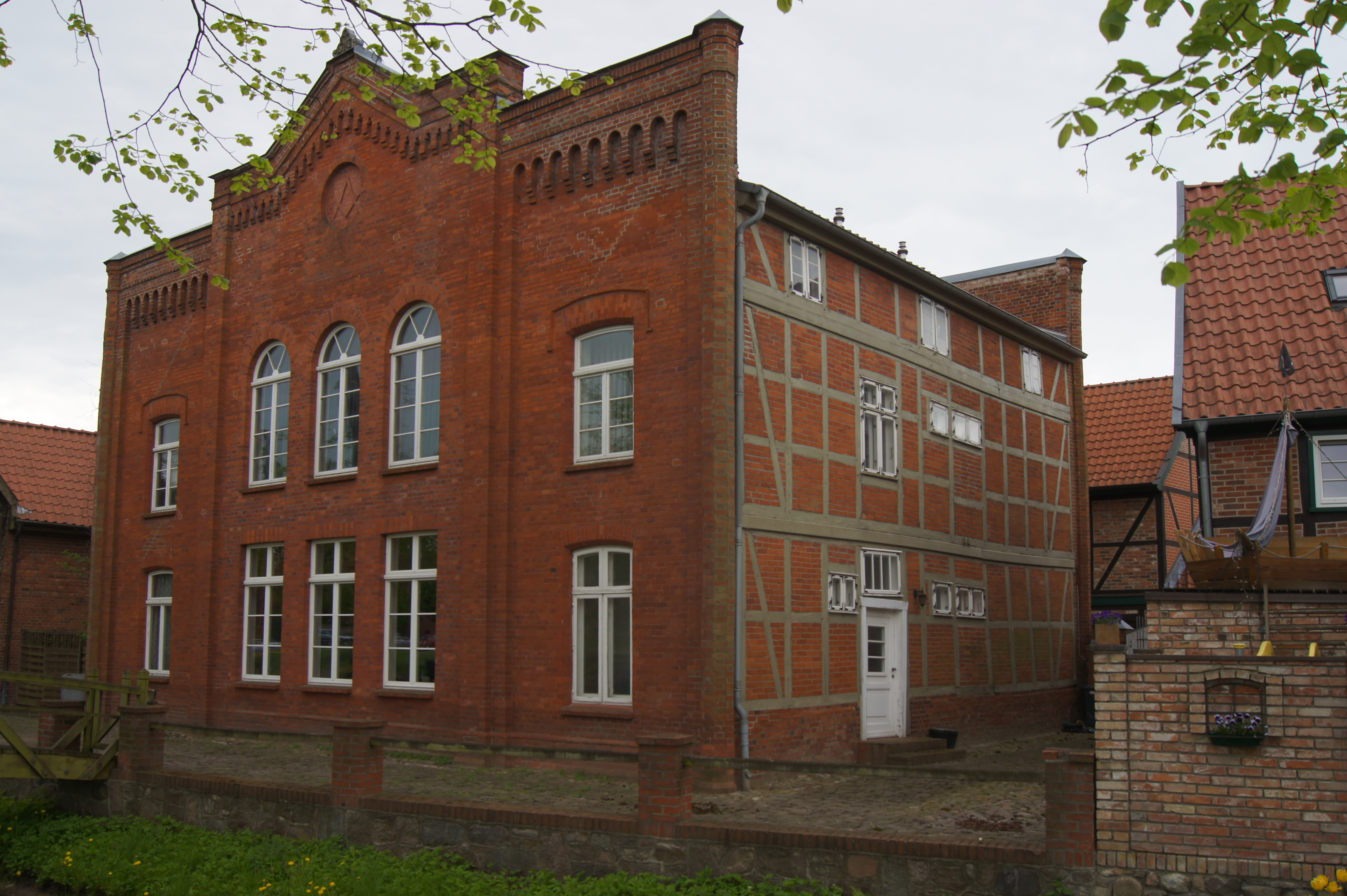 Boizenburg, Germany: Masonic Temple: eastern and northern side